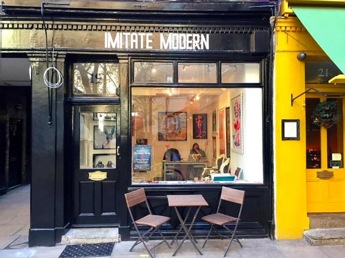 Image of Imitate Modern Gallery in Shepherd Market, London